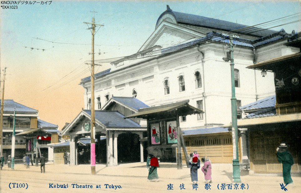 Tokyo Kabukiza 1889-1911